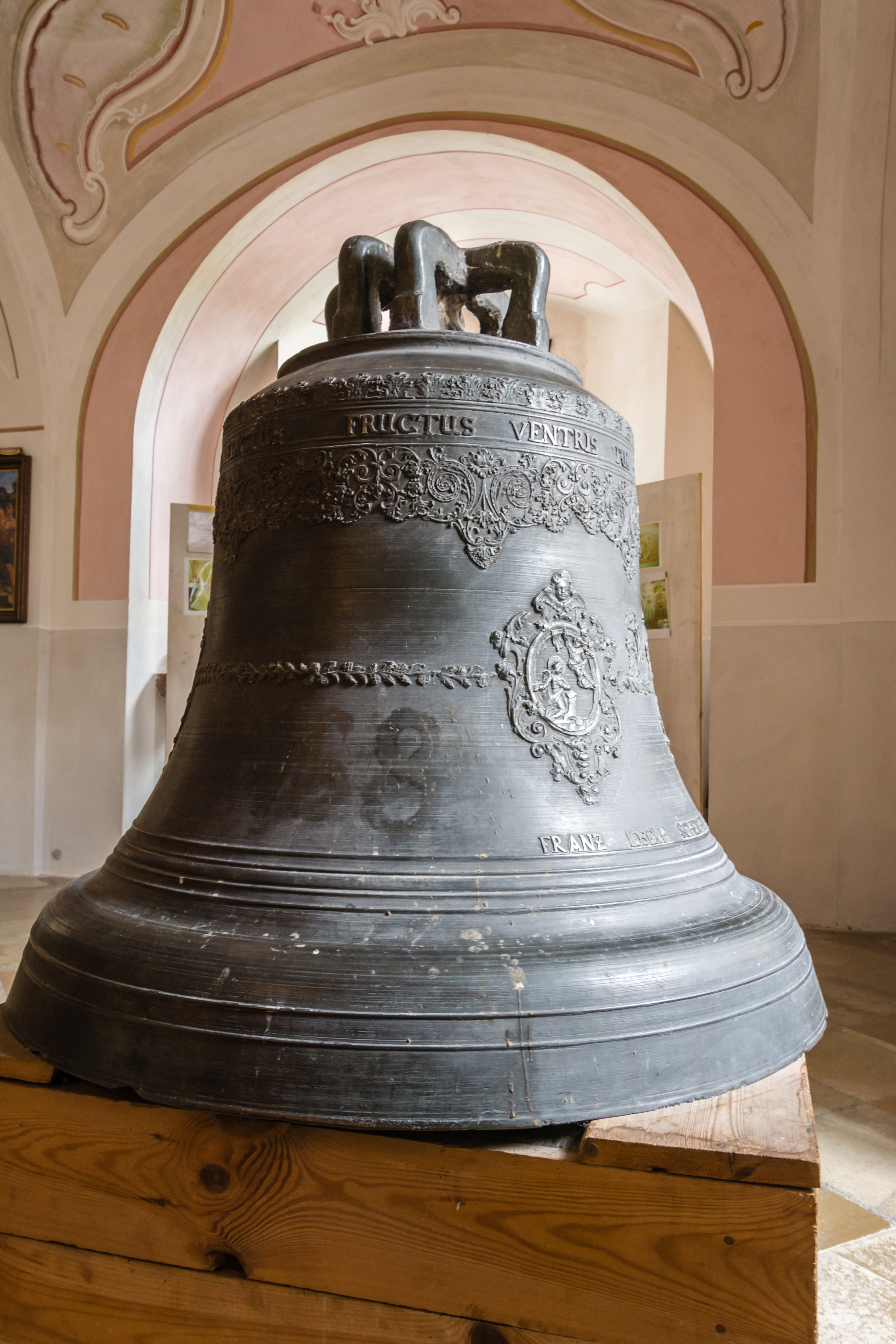 Old bell of the pilgrimage church of Maria Langegg, Lower Austria. The bell was cast by Franz Josef Scheichel in 1774, and was damaged by wildfire on 5th April 1966. It is now exposed in the interior of the church.